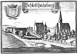 Schloss Hechenberg